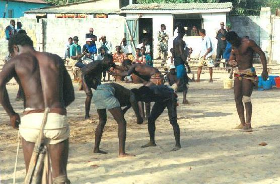 The match